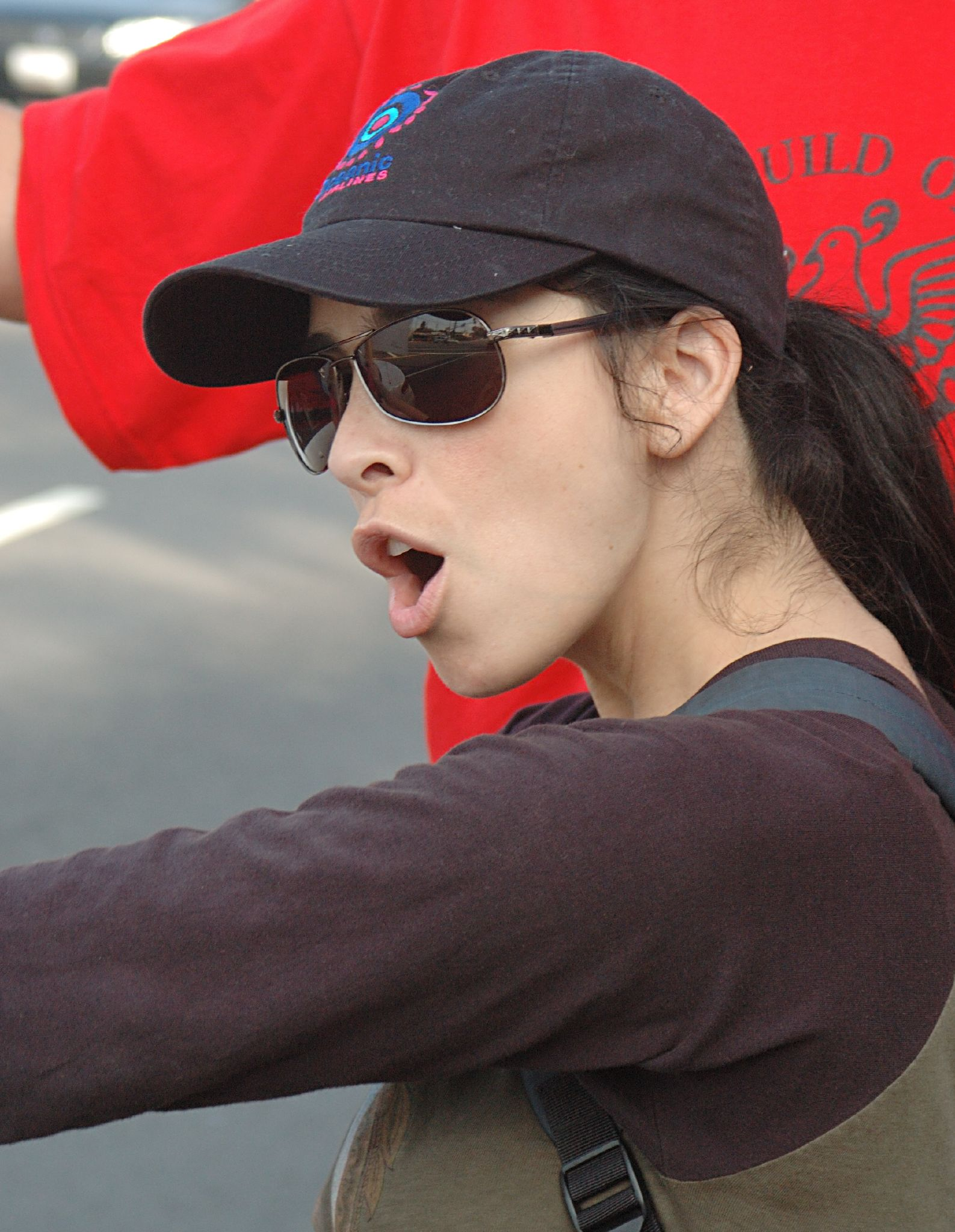 American comedienne, writer, and actress Sarah Silverman during the 2007 WGA strike.